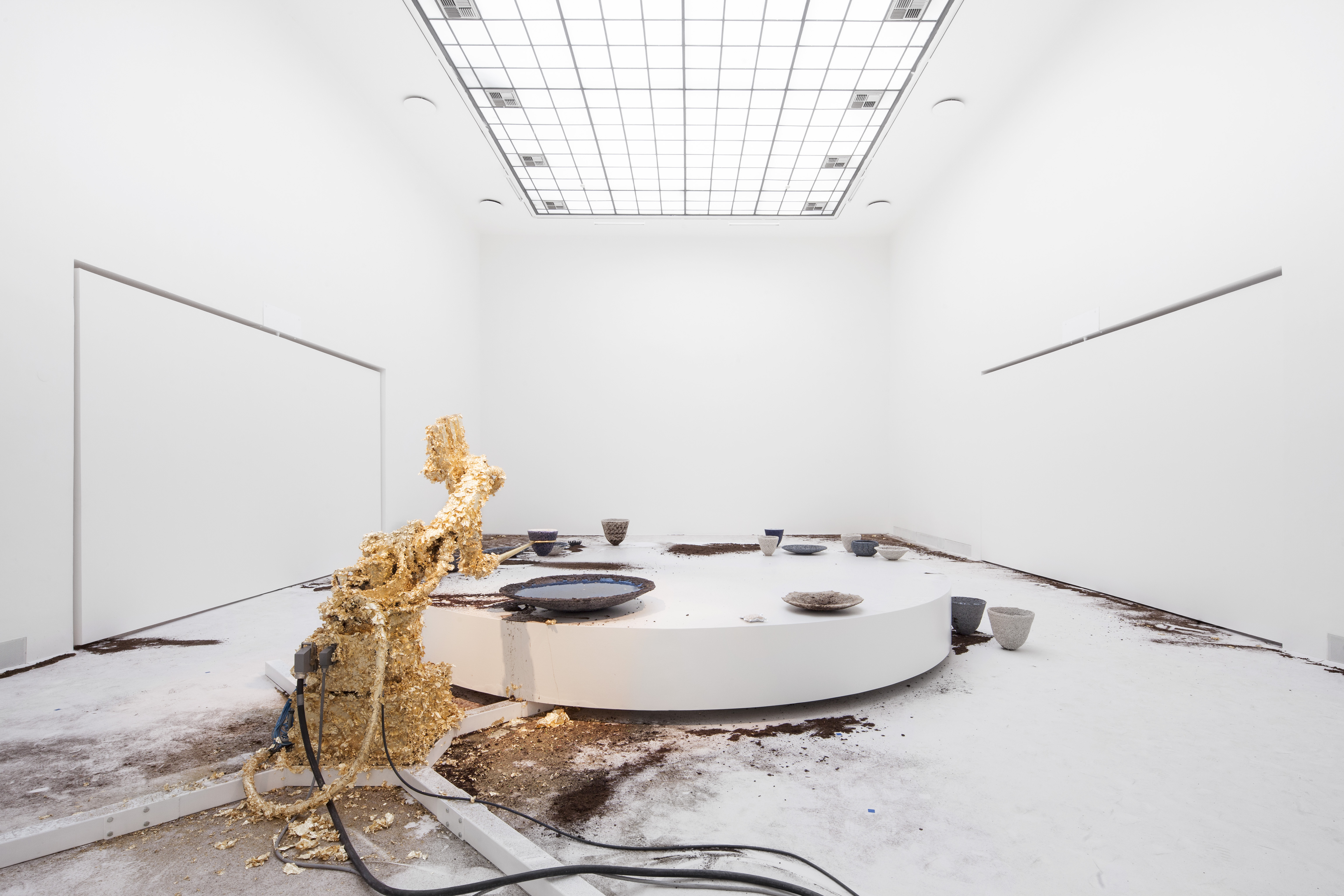 Installation view from BIG LIGHT